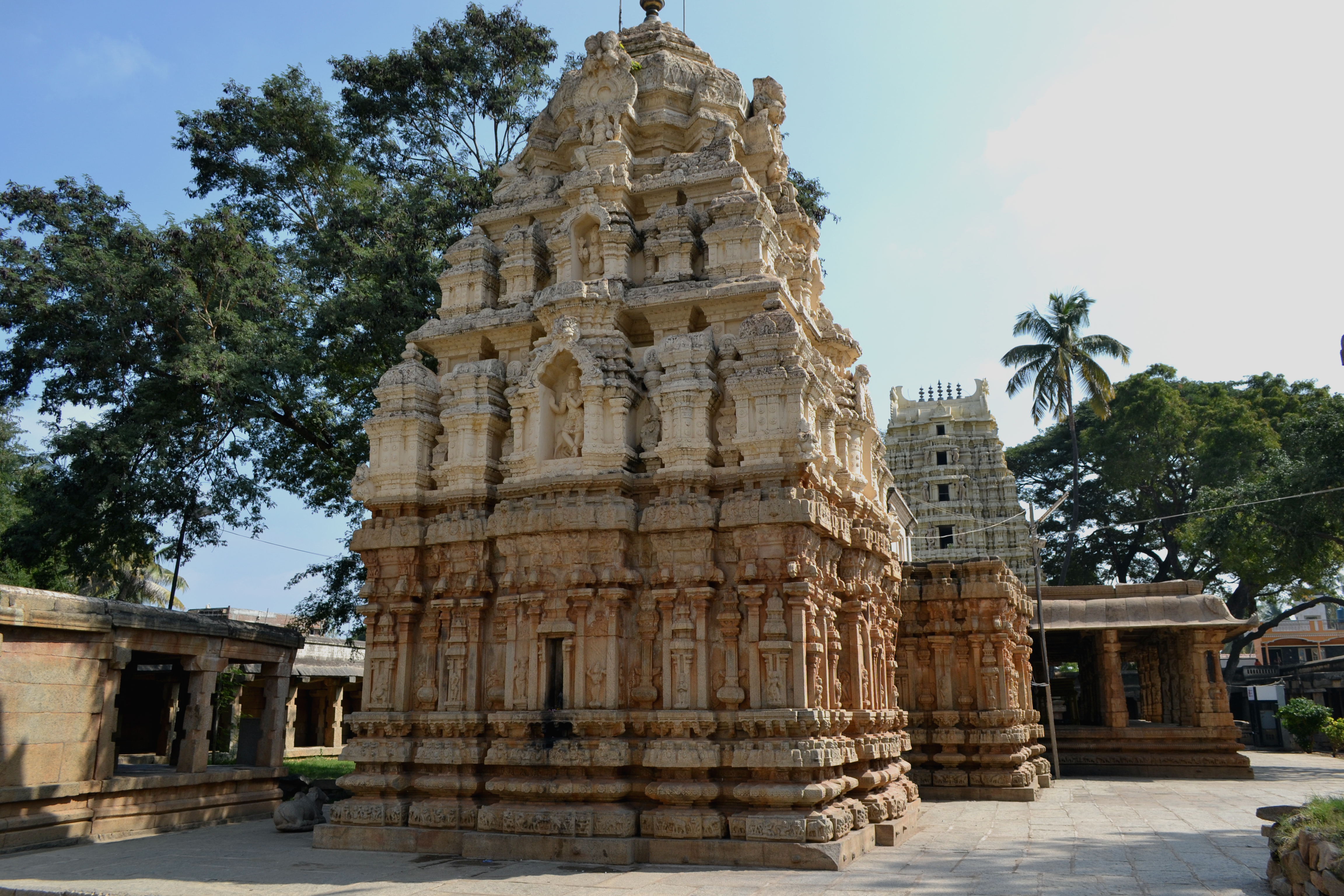 Somesvara temple and Inscriptions